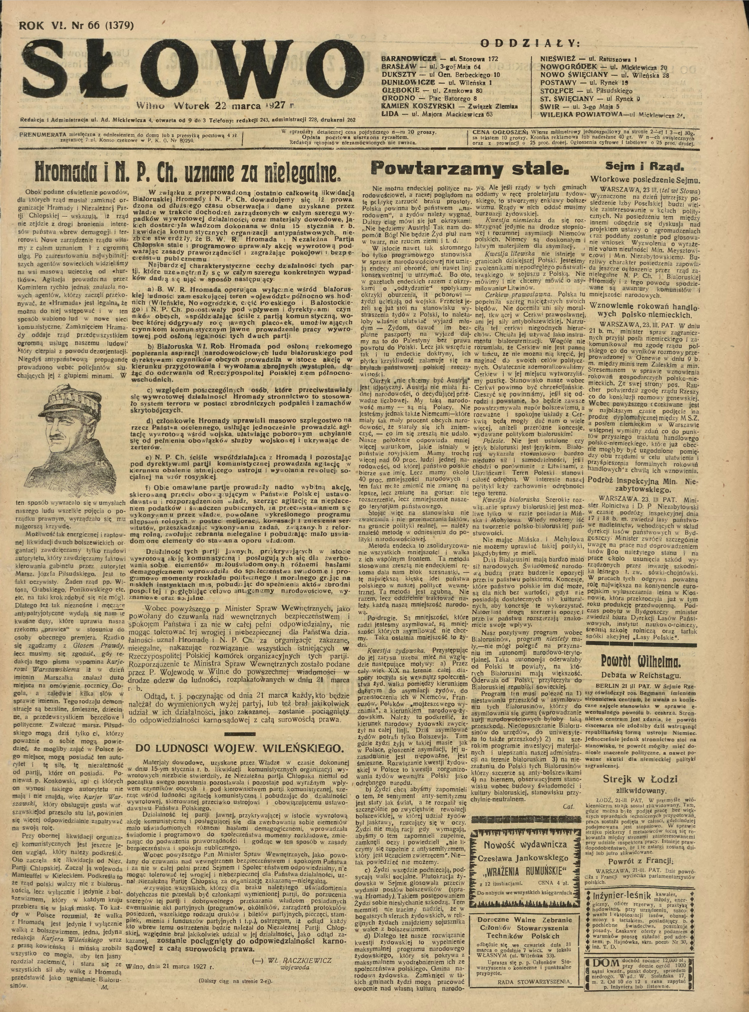 first page of newspaper "Słowo" (#66, 1927 AD), Poland. Stanisław Mackiewicz (1896-1966)'s article "Powtarzamy stale"